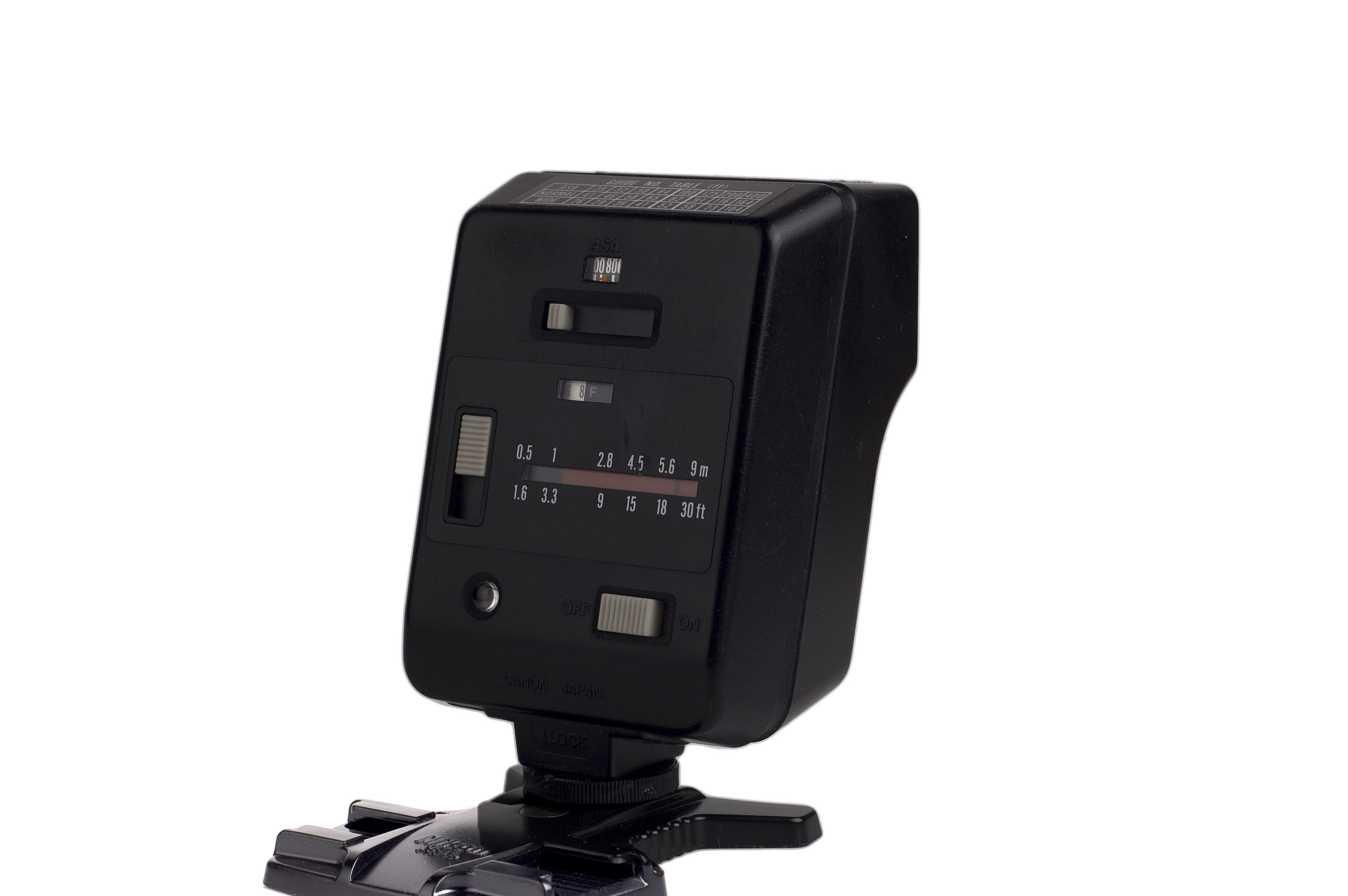 Canon Speedlite 188A back